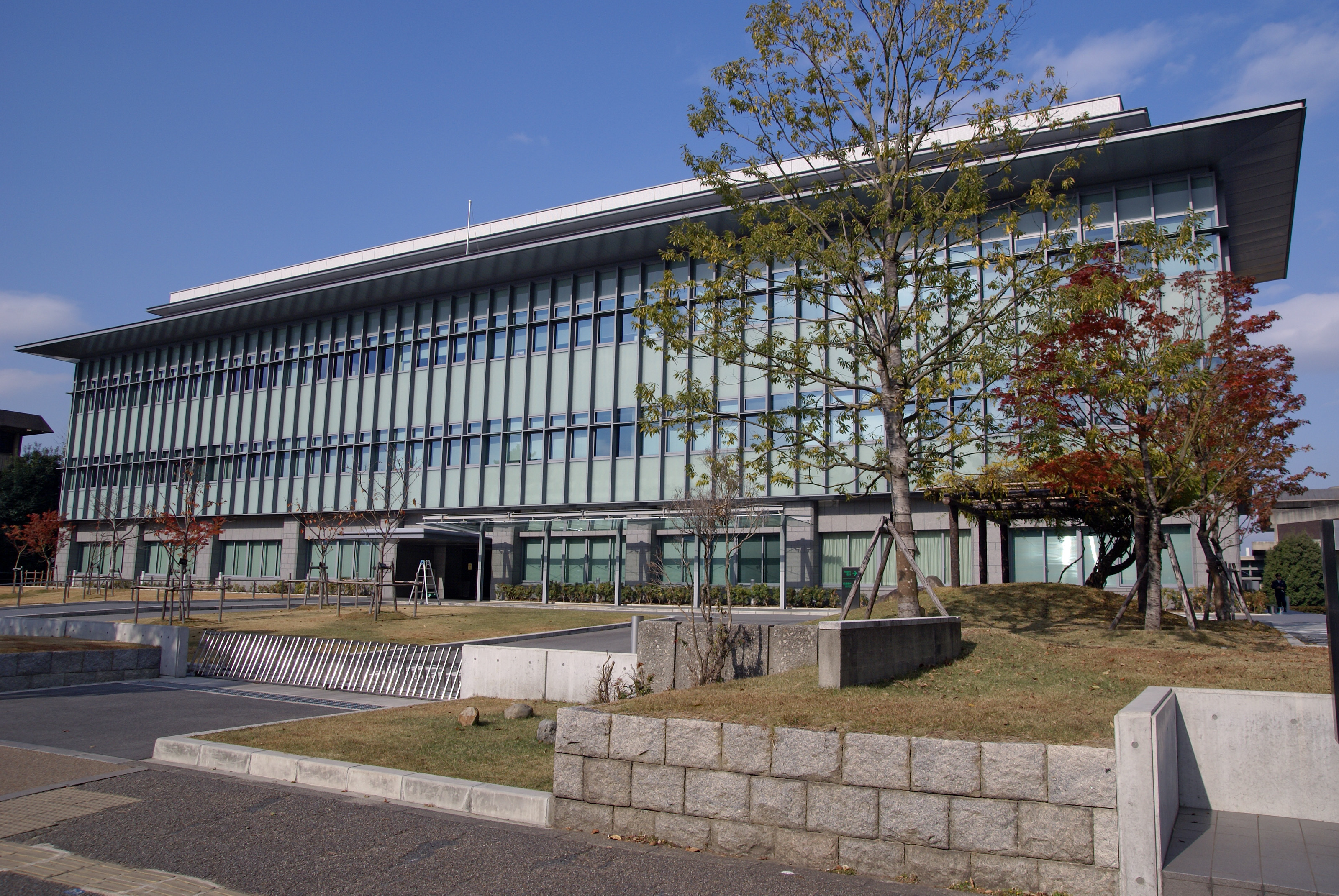 Nara District Court in Nara, Nara prefecture, Japan